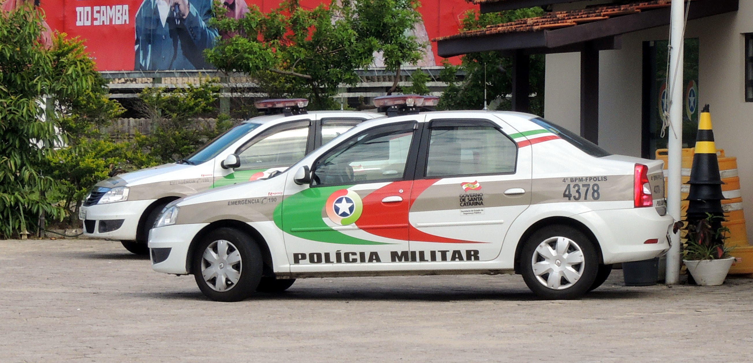 Patrols od Militar Police of Santa Catarina, Florianopolis, Brazil